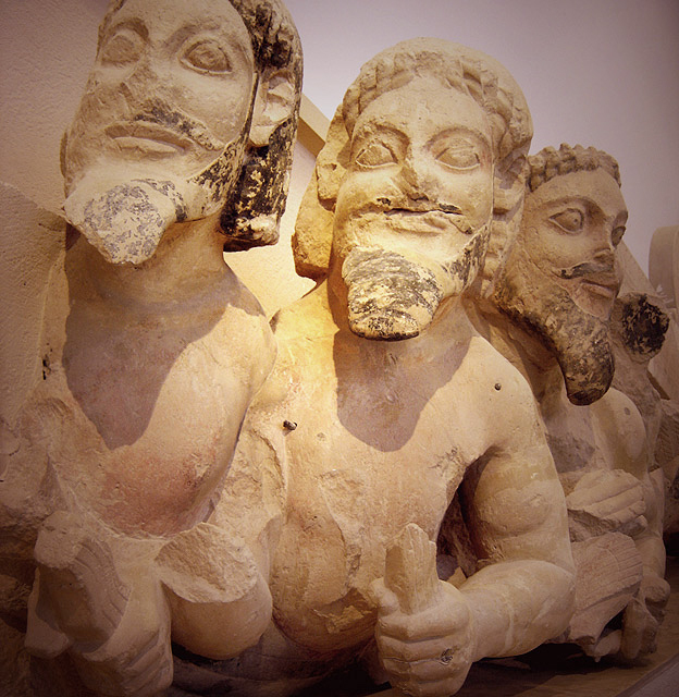 Lenormant fragment, Acropolis Museum, Athens